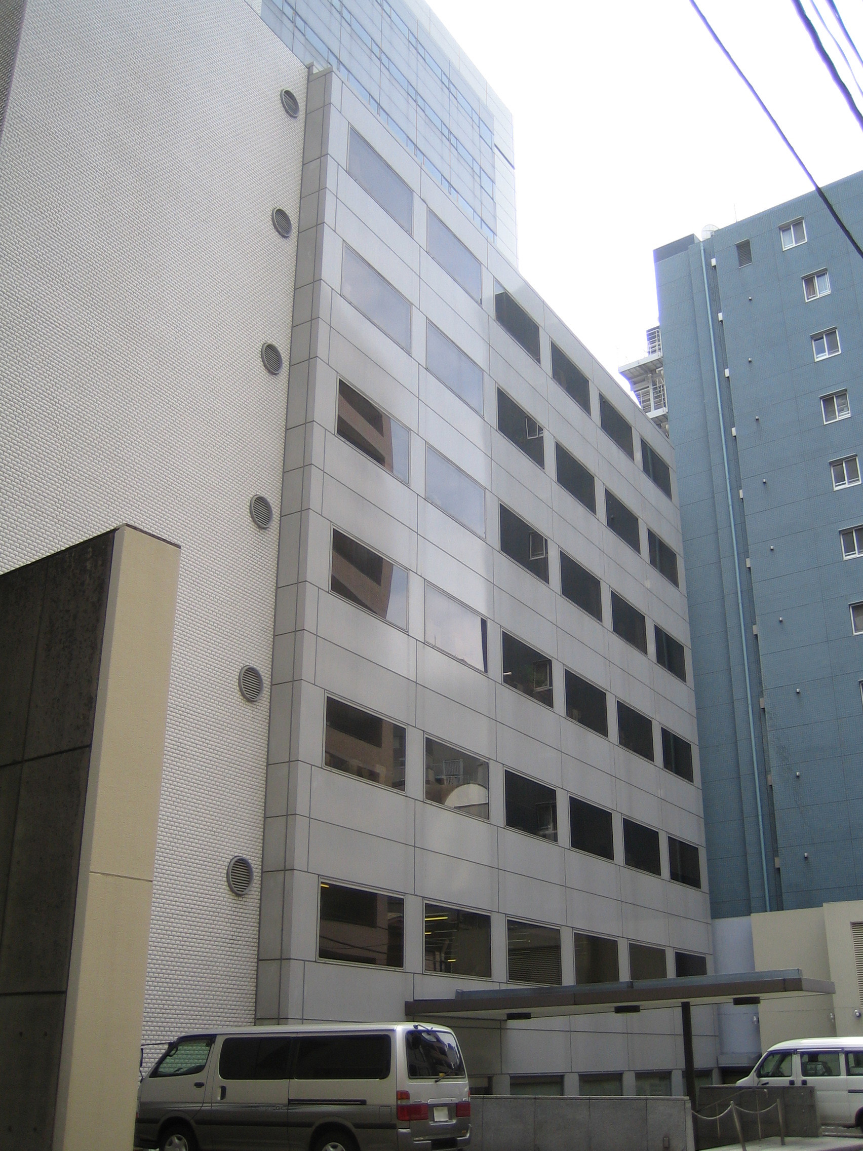 岩波書店本社。東京都千代田区一ツ橋Iwanami Shoten, Publishers. (岩波書店 Iwanami Shoten), at Hitotsubashi, Chiyoda, Tokyo, Japan